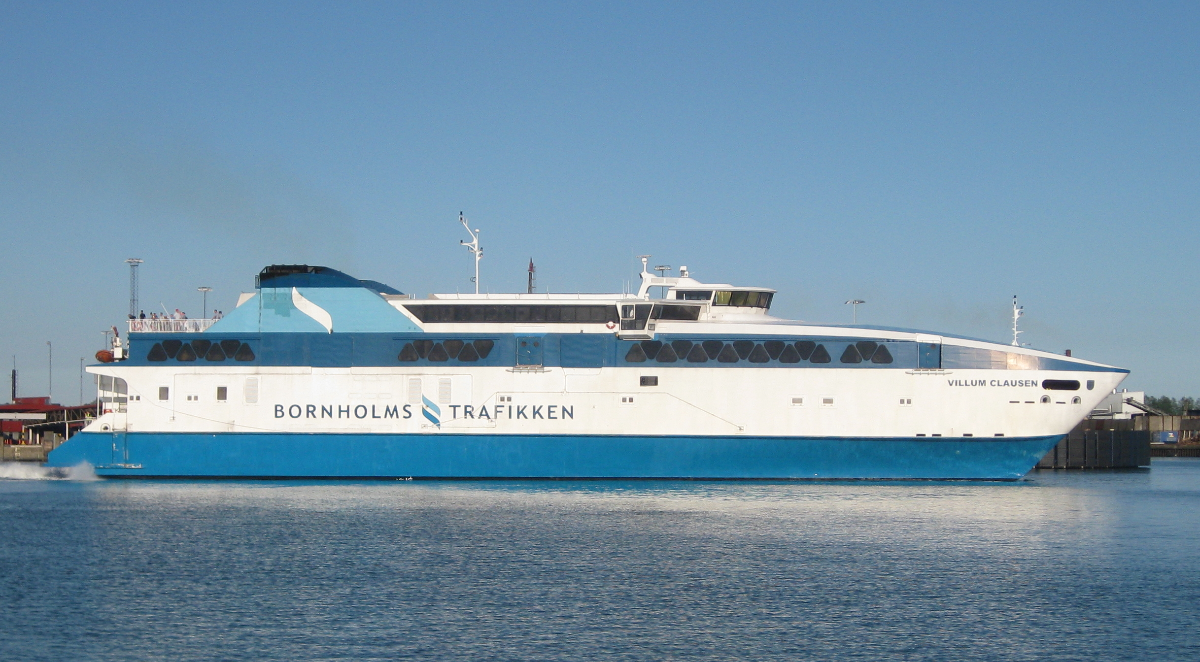 M/S Villum Clausen, ferry between Ystad and Rønne